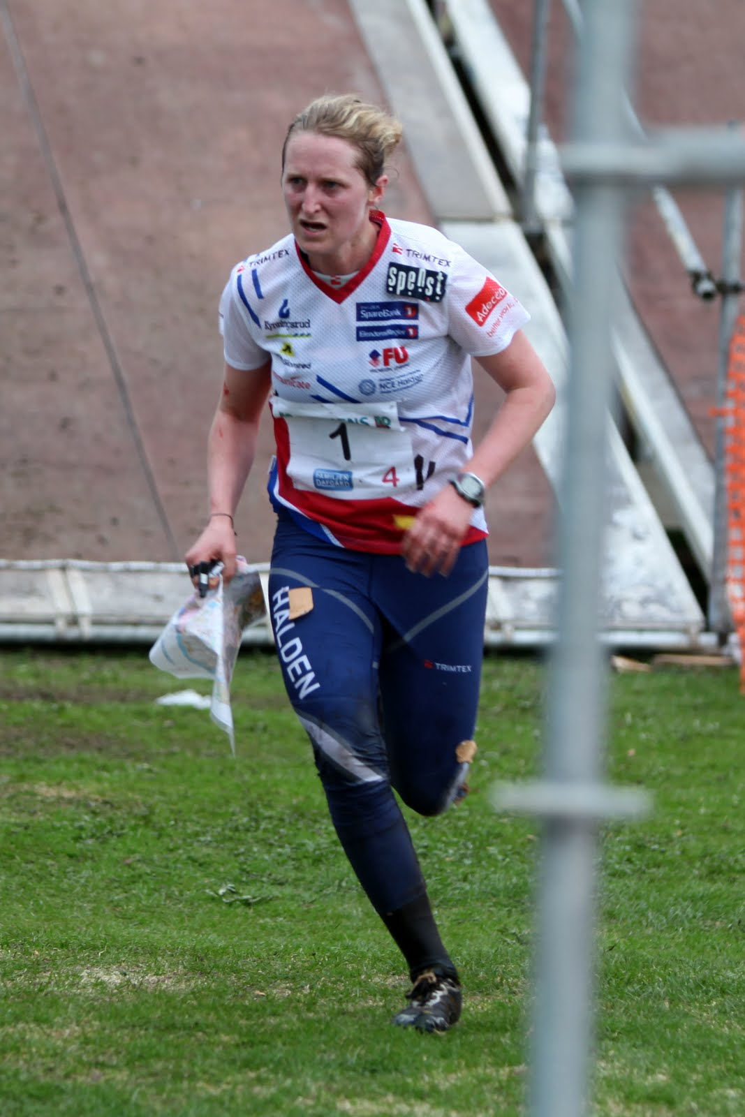 Kajsa Nilsson (SWE) at Tiomile 2010